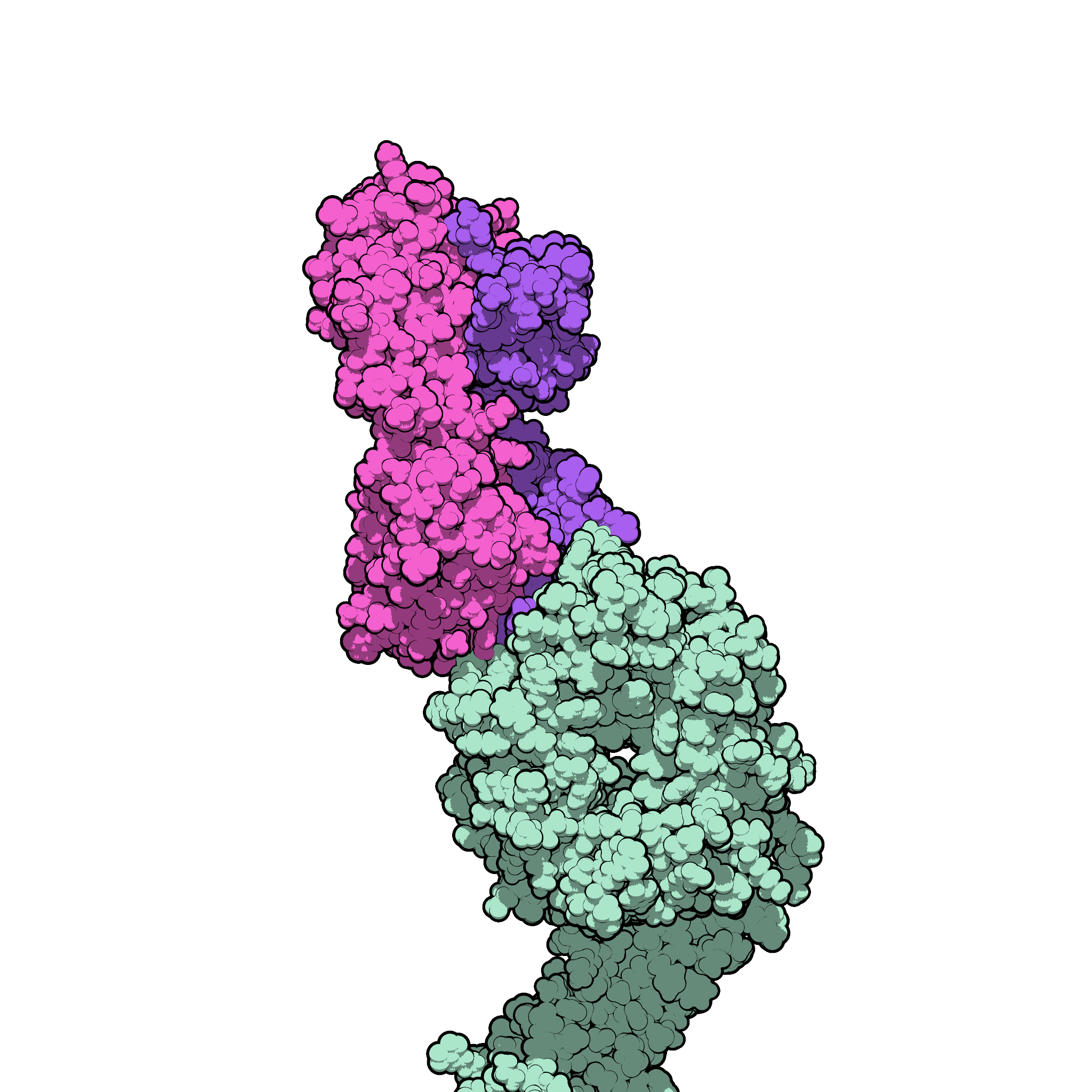 Space-filling model of the Fab fragment of the monoclonal antibody natalizumab (pink/purple) bound to the headpiece of α4β7-integrin (teal).Style made to resemble the Protein Data Bank's "Molecule of the Month" series, illustrated by Dr. David S. Goodsell of the Scripps Research Institute. Created using QuteMol ( Optimized with OptiPNG.